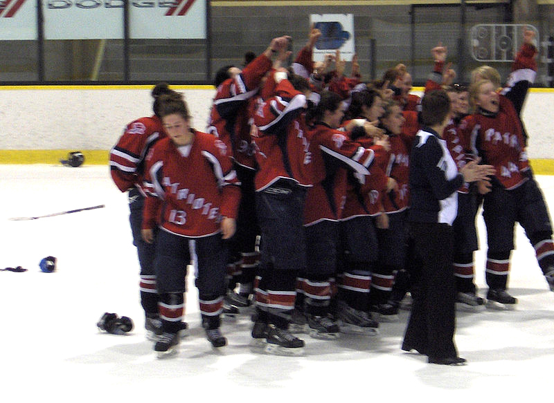 Victory of Patriotes du Cégep St-Laurent at the championship game 2010-11 (Ligue de hockey féminin collégial AA) new photo with photoshop processing